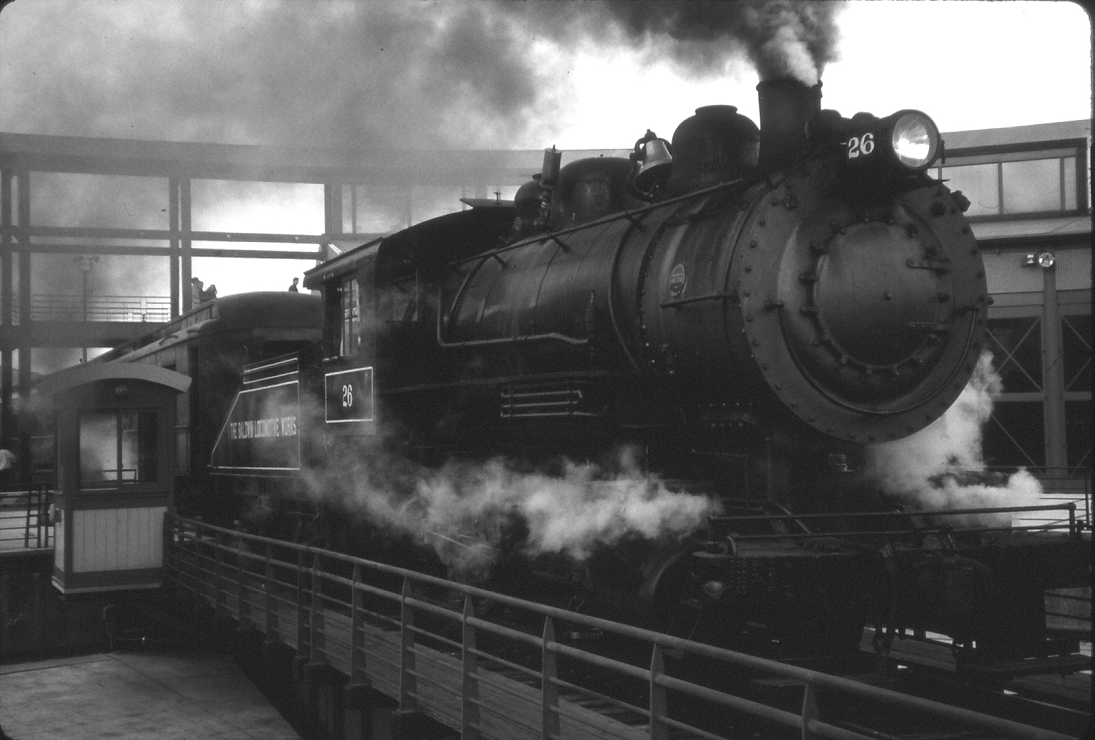 Steamtown